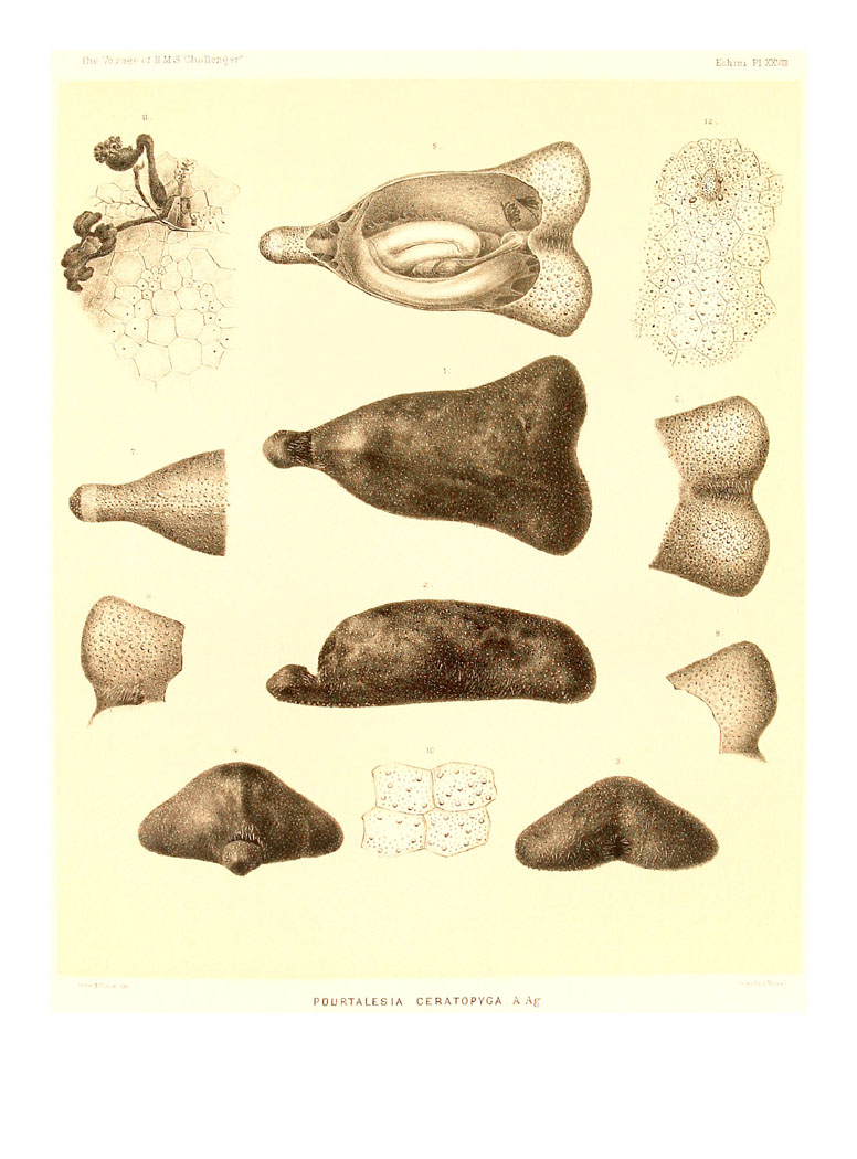 « Pourtalesia ceratopyga » = Ceratophysa ceratopyga